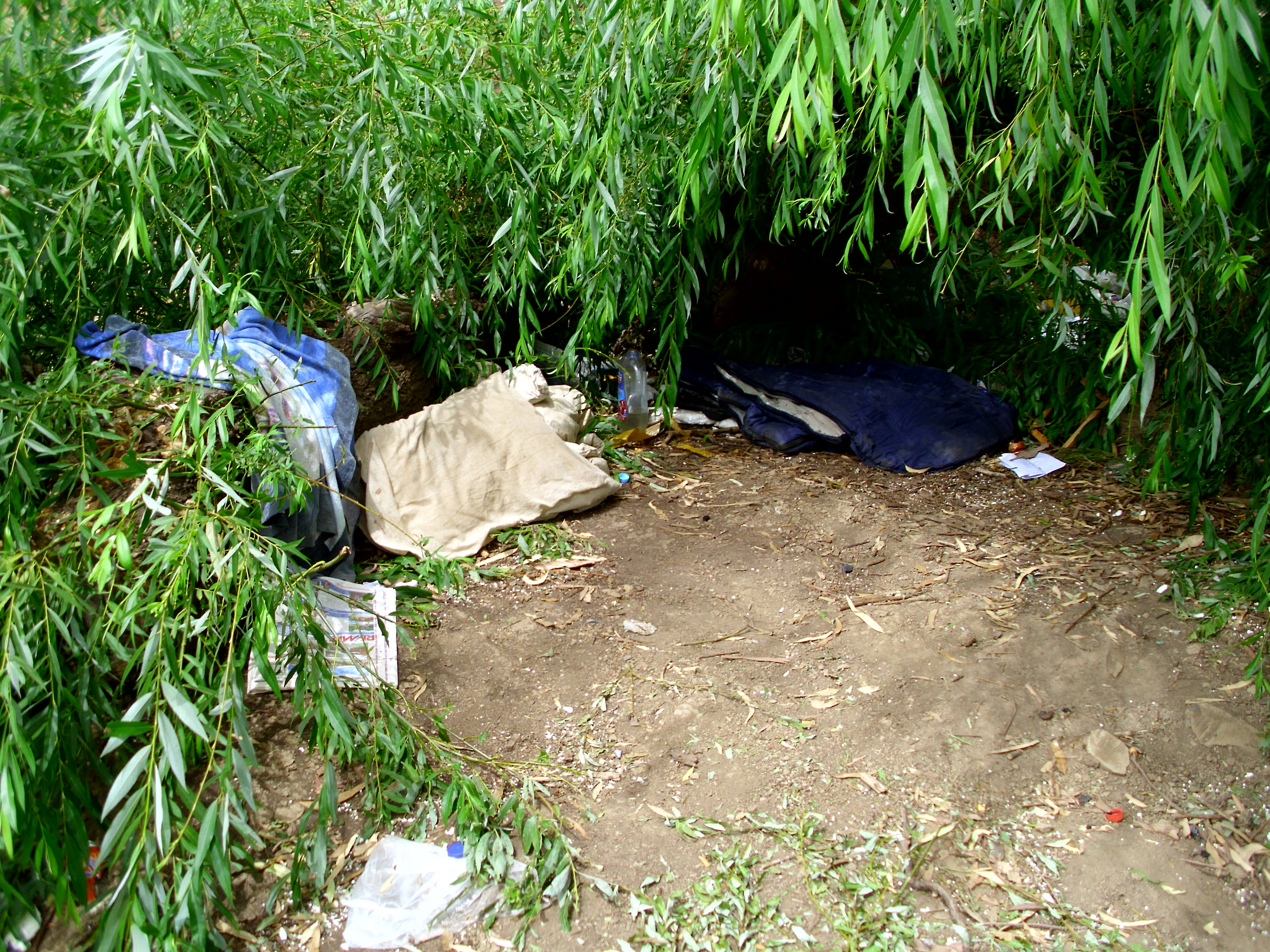 A homeless person's shelter under a fallen Willow tree along in New South Wales, Australia.